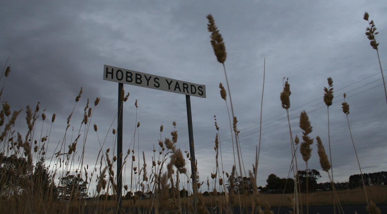 Hobbys Yards NSW, Australia Own photo